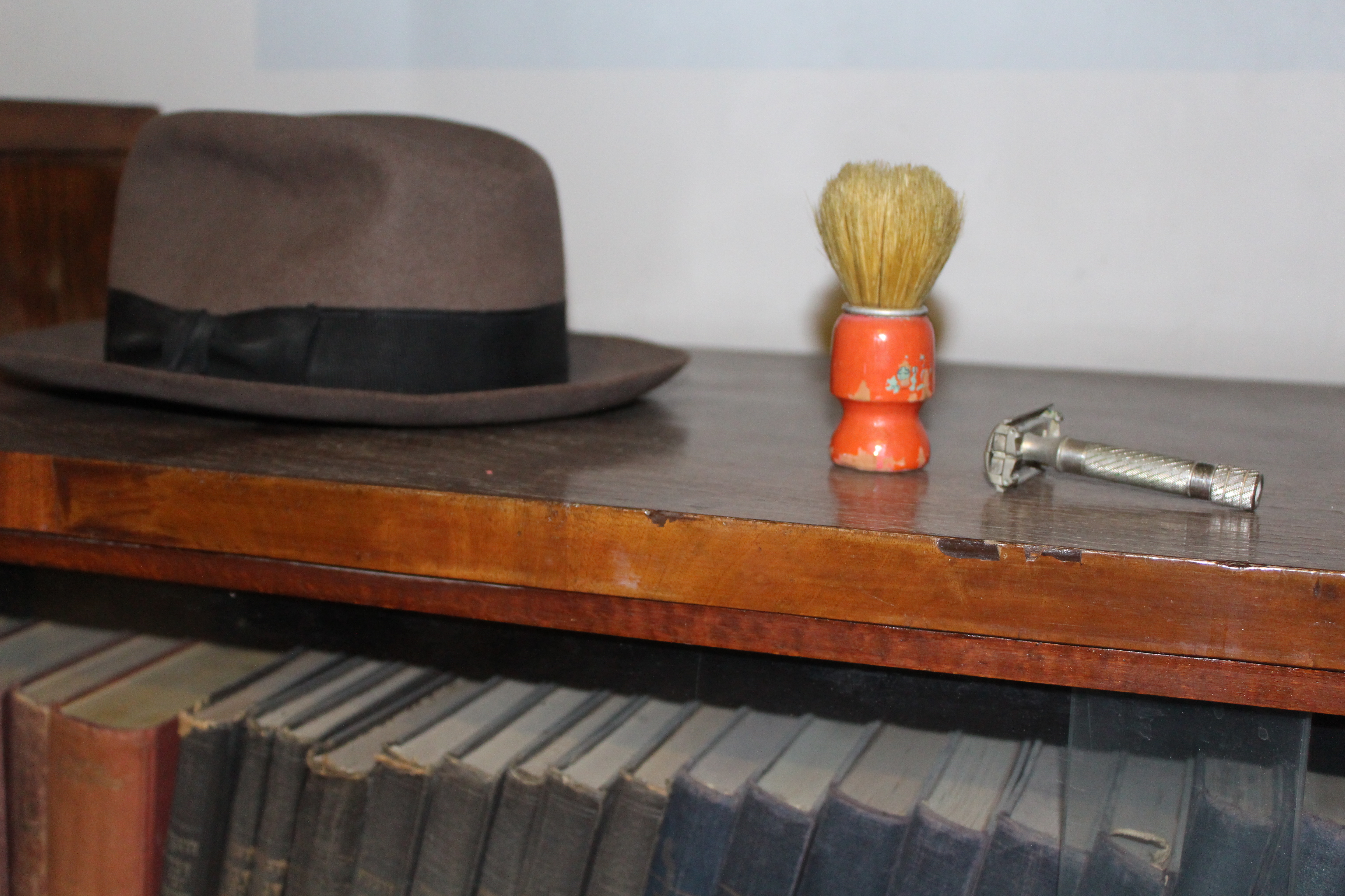 The Lehi Museum, also known as Beit Yair, is placed in the house where the Lehi commander, Avraham Stern (Yair) was assassinated. The room where Abraham Stern, Lehi commander, was murdered by a British policeman on 12/2/1942. The site's ID in Wiki Loves Monuments photographic competition is 3-5000-037